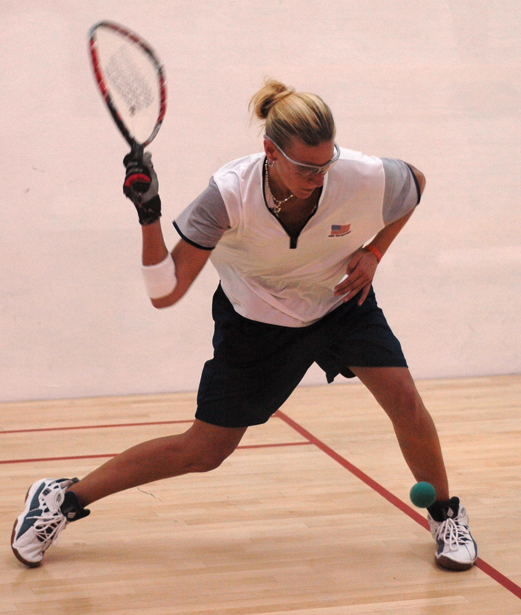 Rhonda Rajsich at 2006 IRF World Racquetball Championships in Santo Domingo, Dominican Republic